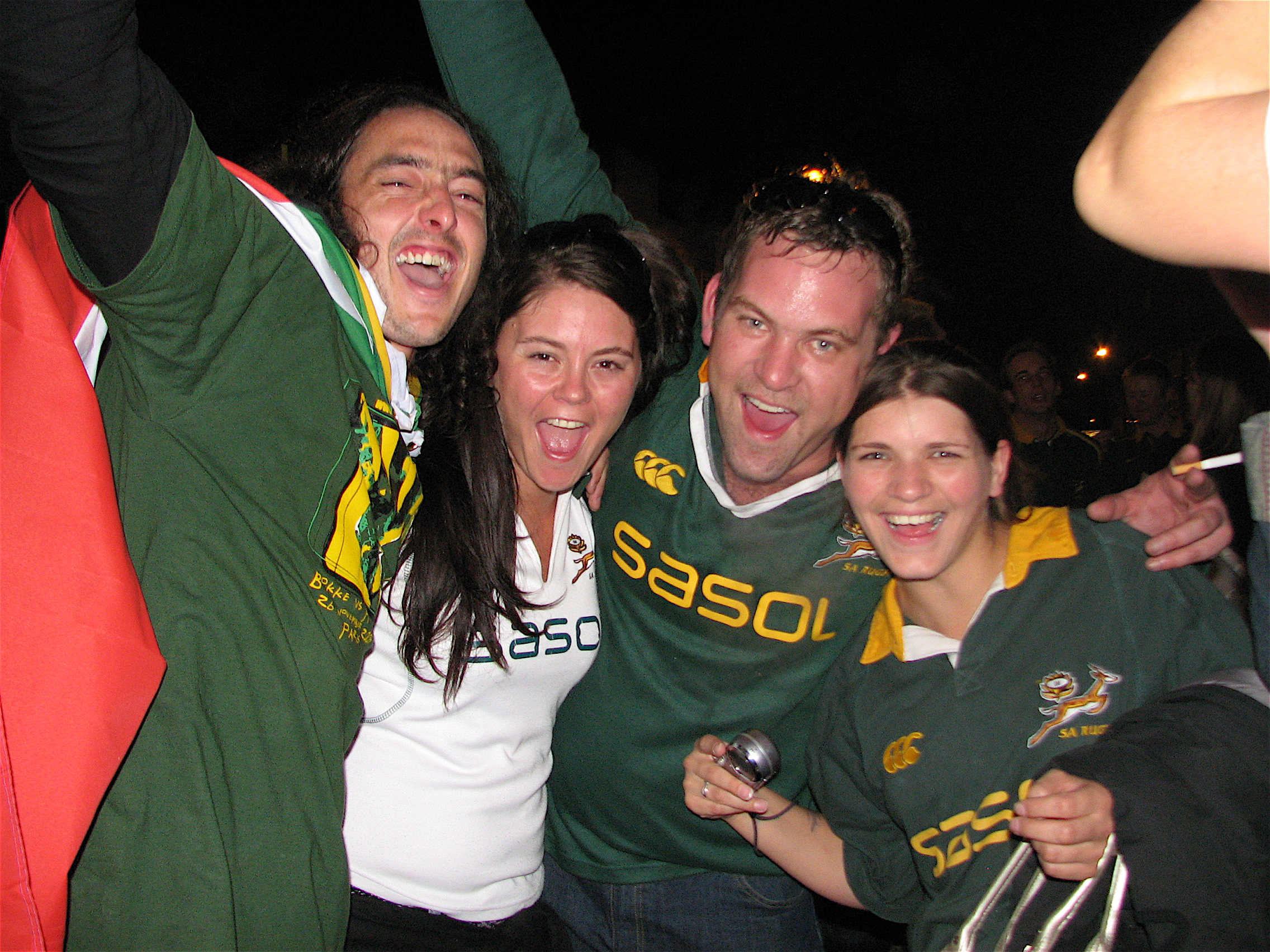 South Africa Rugby World Cup 2007 Winners Fiesta in London Celebrating World Cup Victory